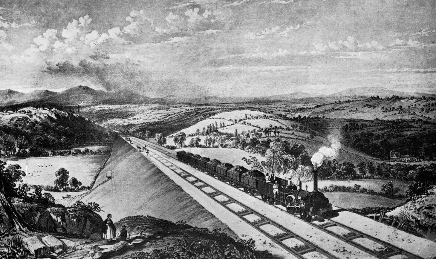 One of the Norris locomotives climbing the Lickey Incline on the Birmingham and Gloucester Railway, England, about 1841